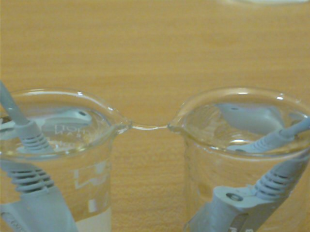 a water bridge